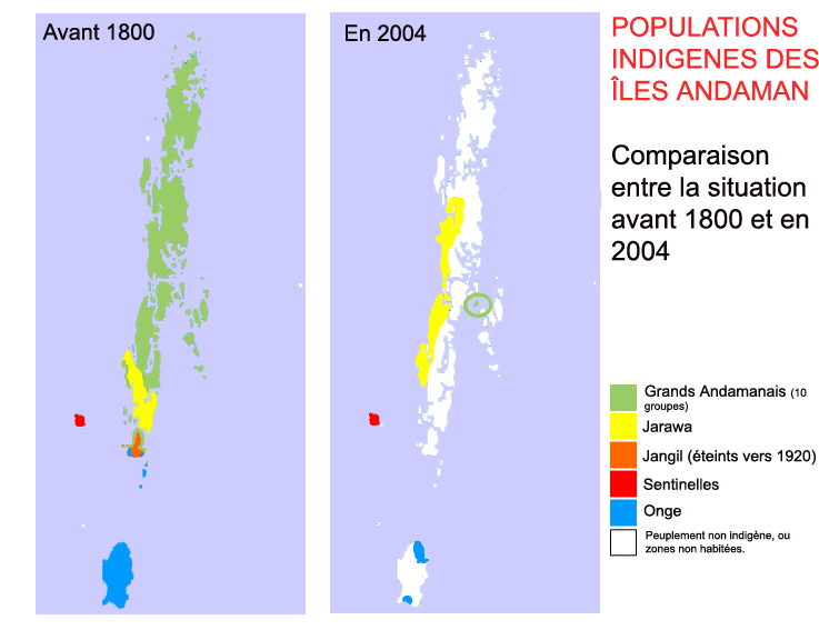 Map showing comparative distributions of Andamanese indigenous peoples, pre-18C vs present-day. Map created by CJLL Wright; after data from Edward Horace Man (1846-1929) et George H.J. Weber (1944- ).